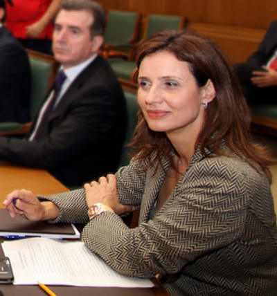 Katerina Batzeli, Minister for Rural Development and Food Cropped from a picture originally posted to Flickr as Πρώτη συνεδρίαση Υπουργικού Συμβουλίου